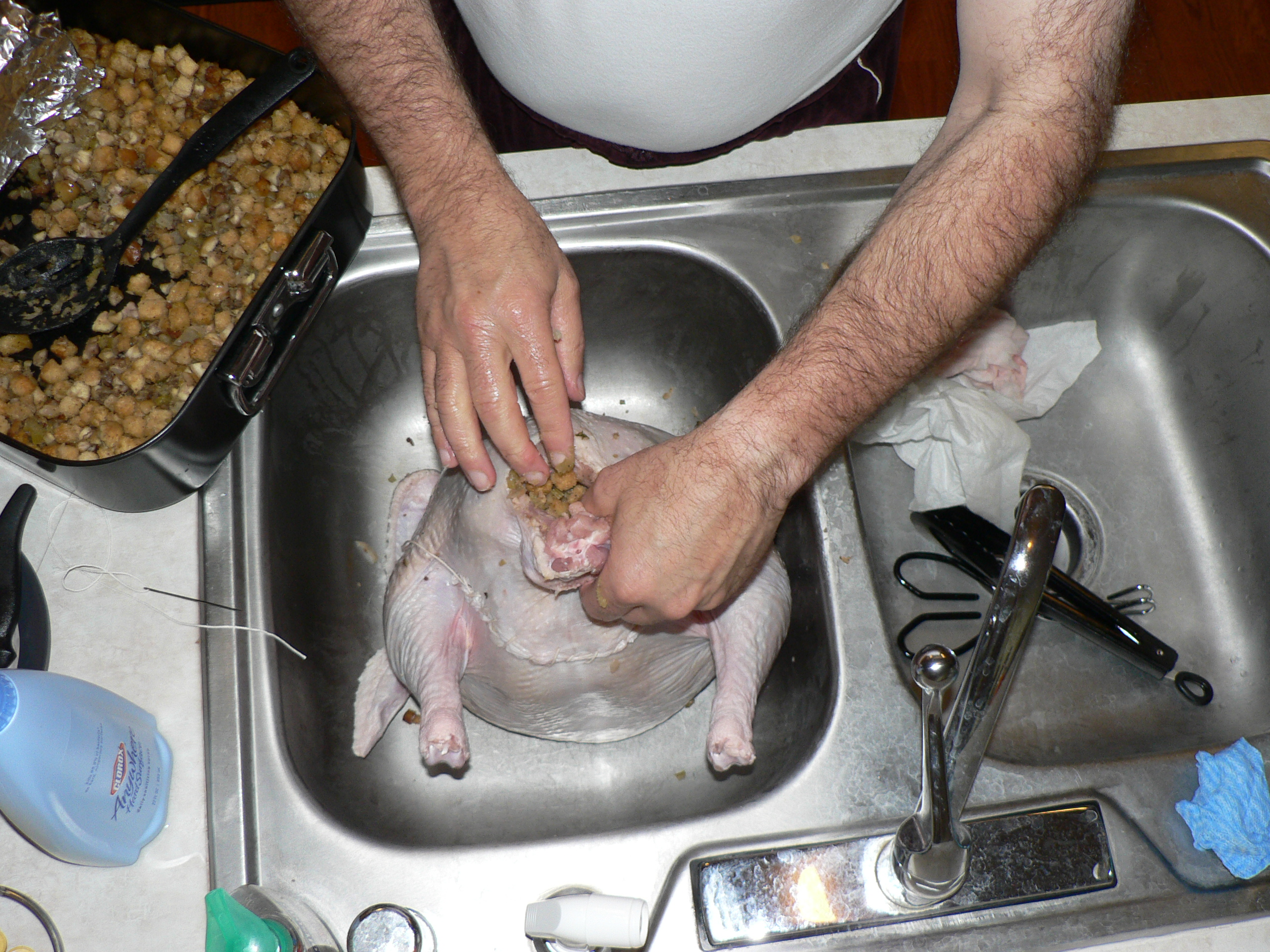 Someone stuffing a turkey